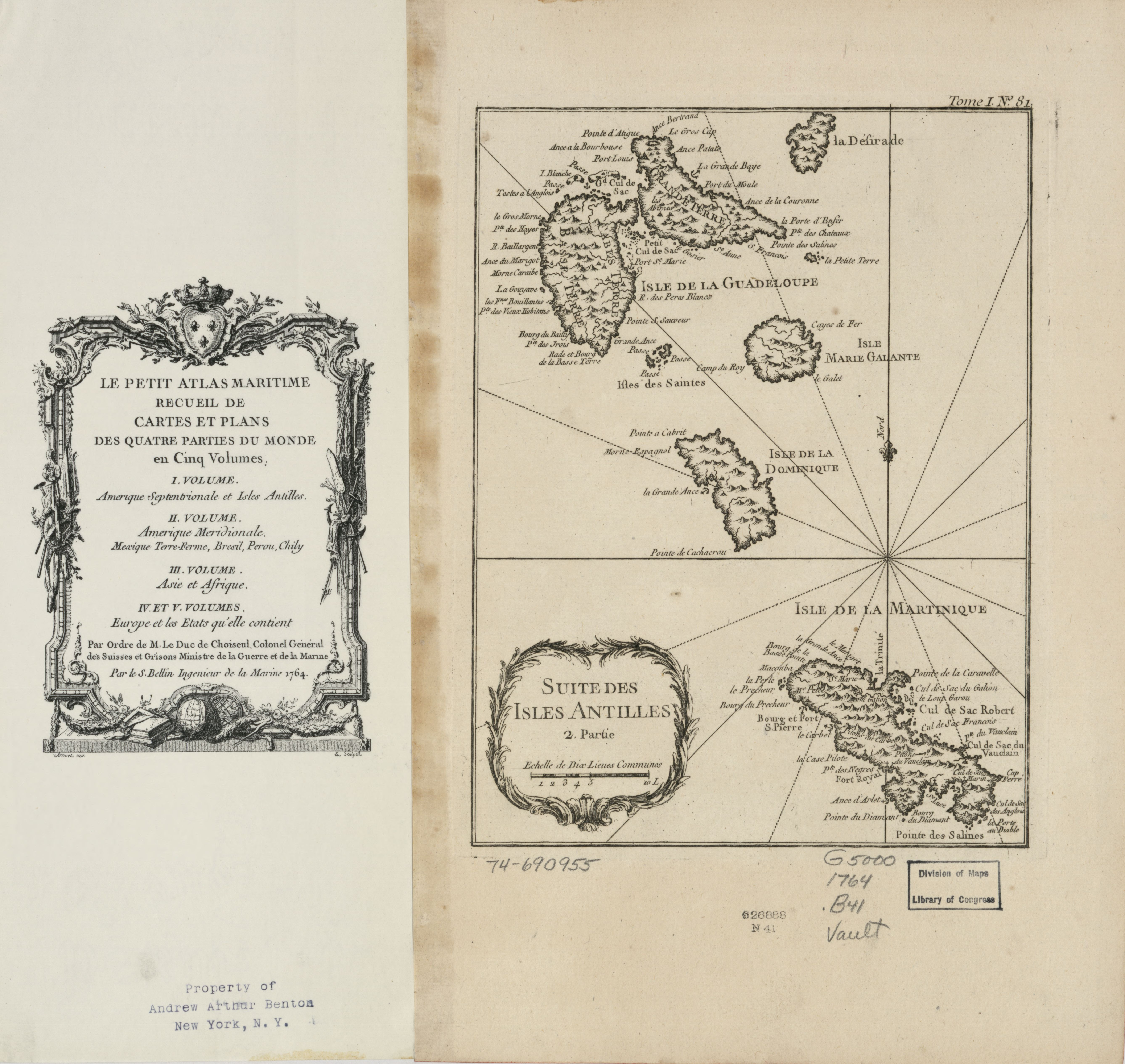 Scale ca. 1:1,150,000. Relief shown pictorially. "Tome I, no. 81." From the author's Le petit atlas maritime. 1764. LC Maps of North America, 1750-1789, 1965 Available also through the Library of Congress Web site as a raster image. Vault AACR2